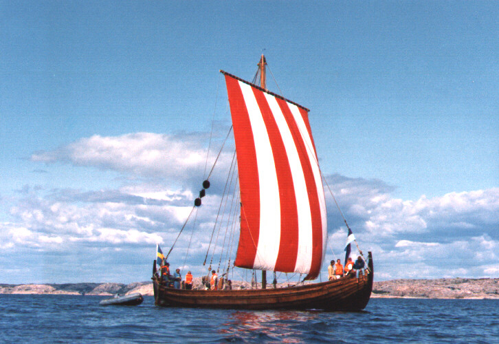 Vidfamne 1994